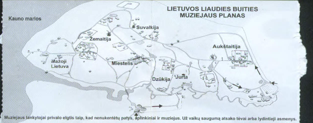 Map of Rumšiškės ethnographic museum.